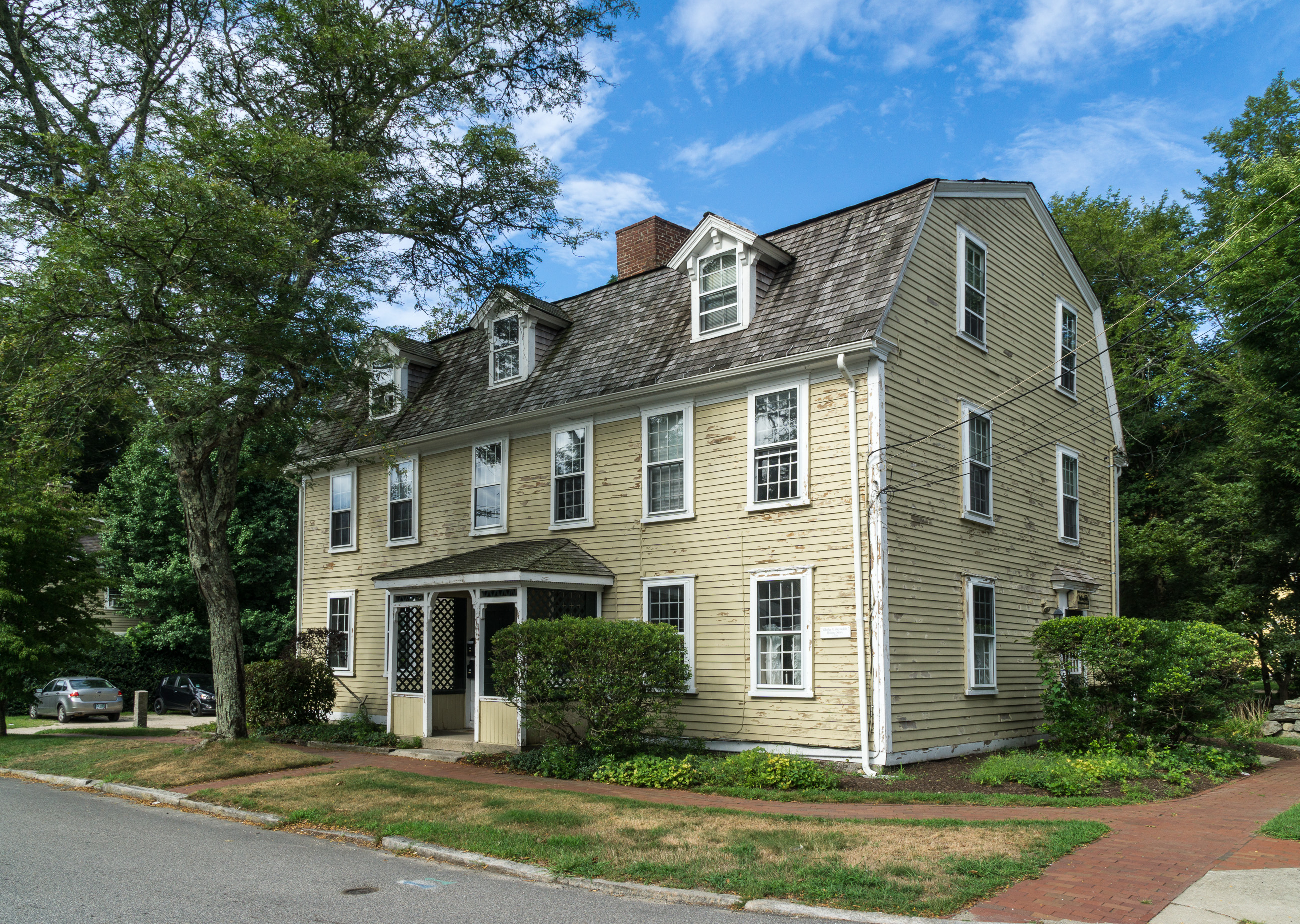 Elisha R. Reynolds House / Store, 1738. Photo taken 2016.